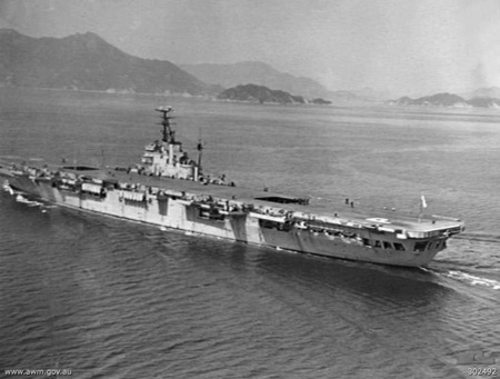 The Royal Navy aircraft carrier HMS Triumph (R16) at Iwakuni, Japan, during the Korean War. Note the type 181b radar at the head of the foremast and the type 277 on the island. Type 279 radar is carried on the mainmast.